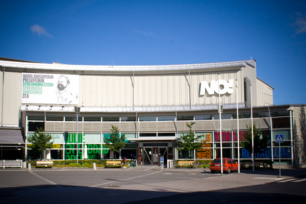 Norrlandsoperan in Umeå 2009.